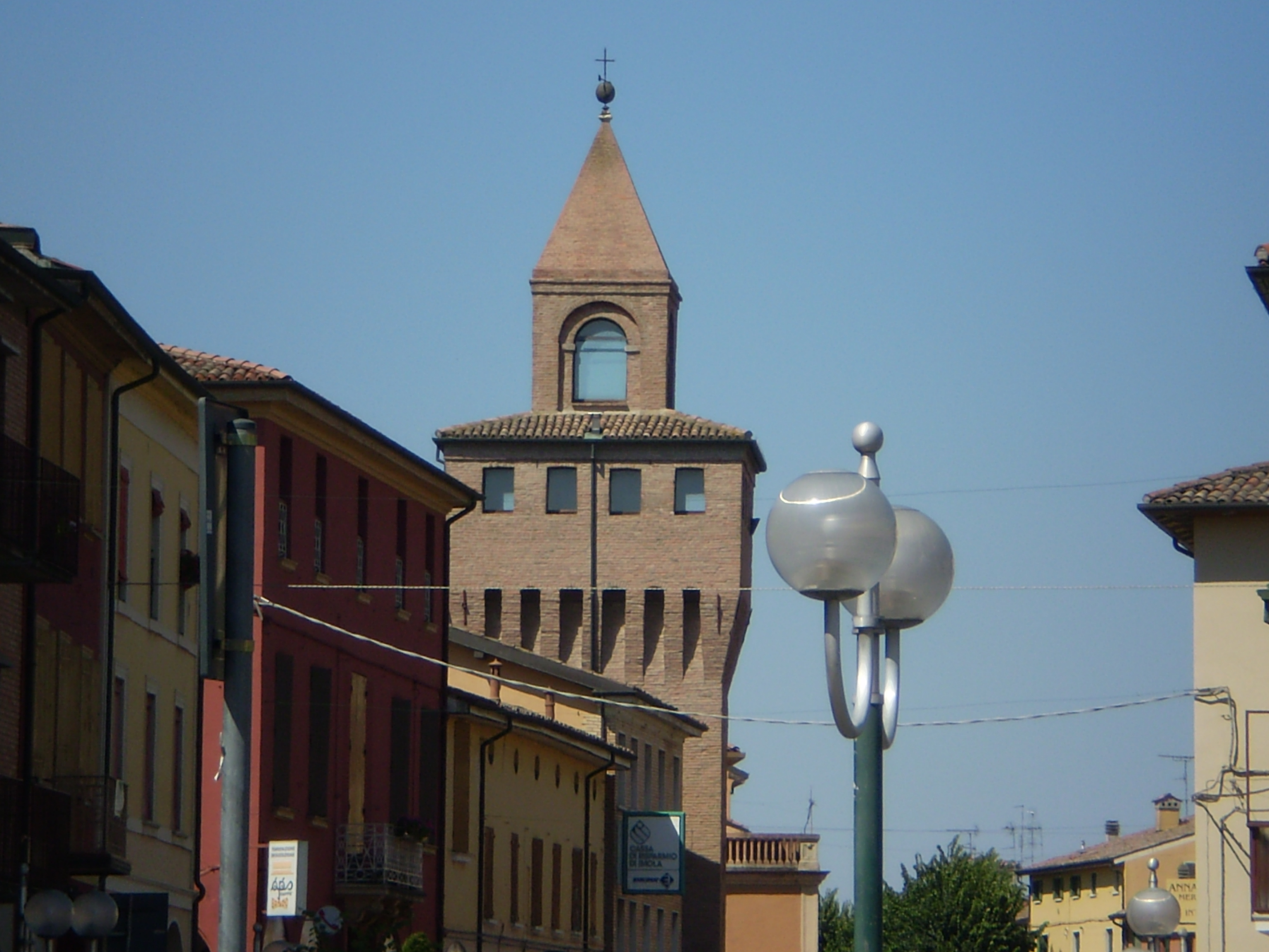 Santo Stefano Tower In Molinella. Cen. XIV